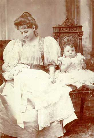 Penelope Delta with two of her daughters.